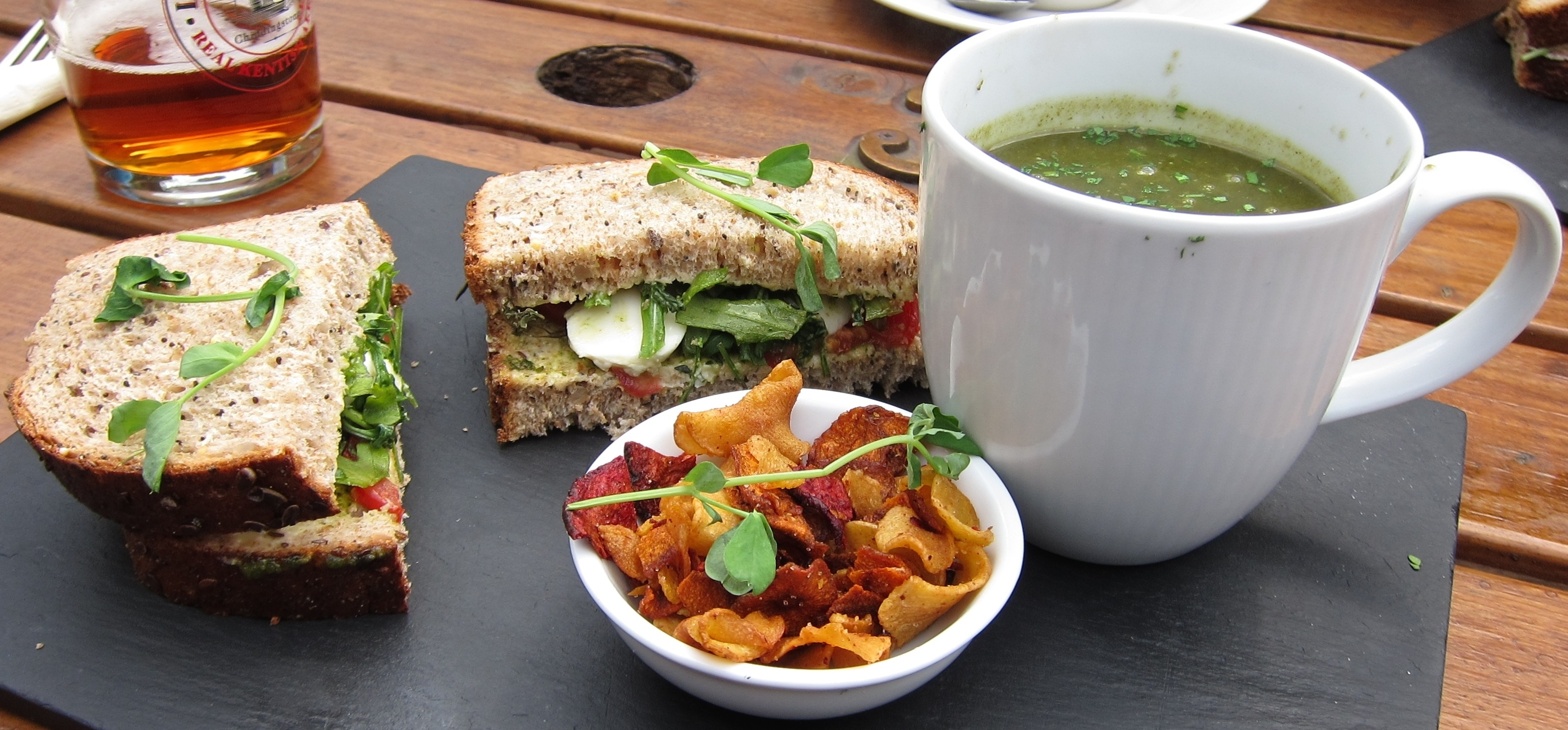 Soup, sandwich and chips. Hever-Chiddingstone walk.